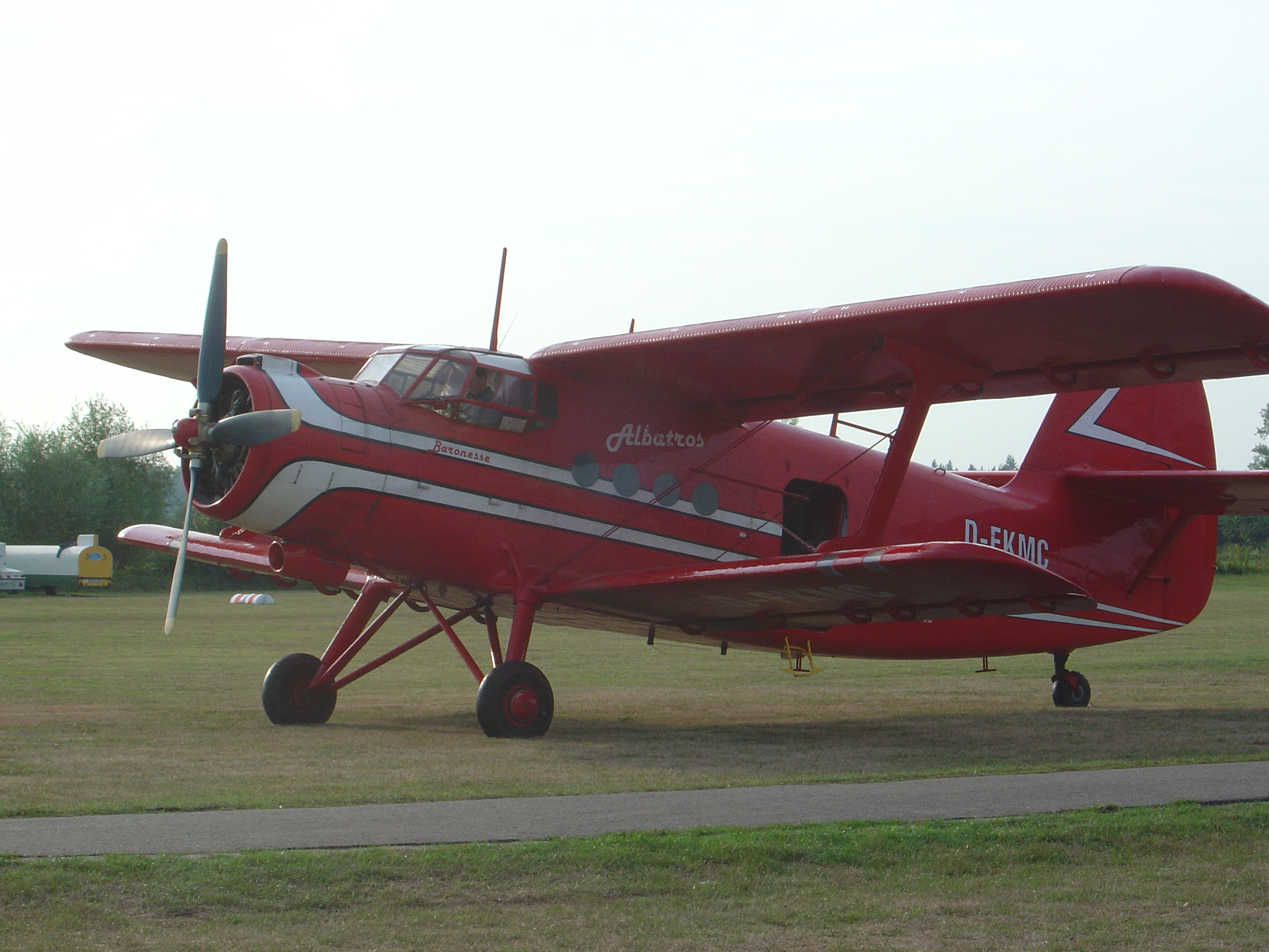 The red Antonov An-2 as seen at the Weinheim air show 2003.